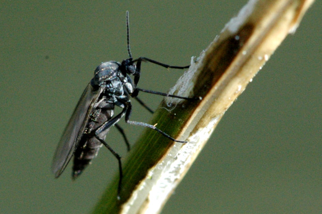 Picture taken in Commanster, Belgian High Ardennes . Species: Tetragoneura sylvatica [Looks more like a sciarid to me ... Stho002 (talk) 22:18, 5 June 2015 (UTC)]